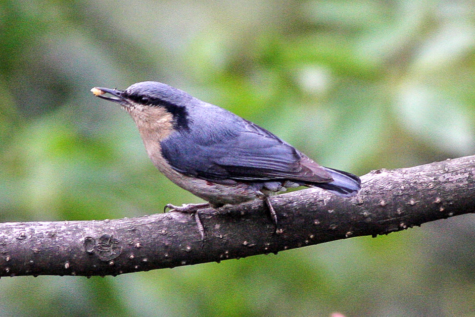 Chestnut-vented Nuthatch (Sitta nagaensis montium) at Wawu Shan, Sichuan